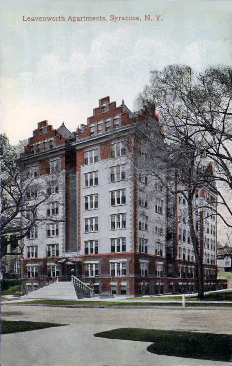 Leavenworth Apartments in Syracuse, New York about 1920